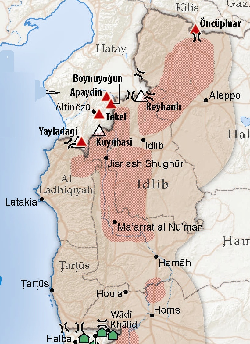 Locations in norther Syria occupied by the Free Syrian Army that are shown on the John Holiday (June 2012) map have been transposed on top of cropped refugee and displacement map by US State Department.